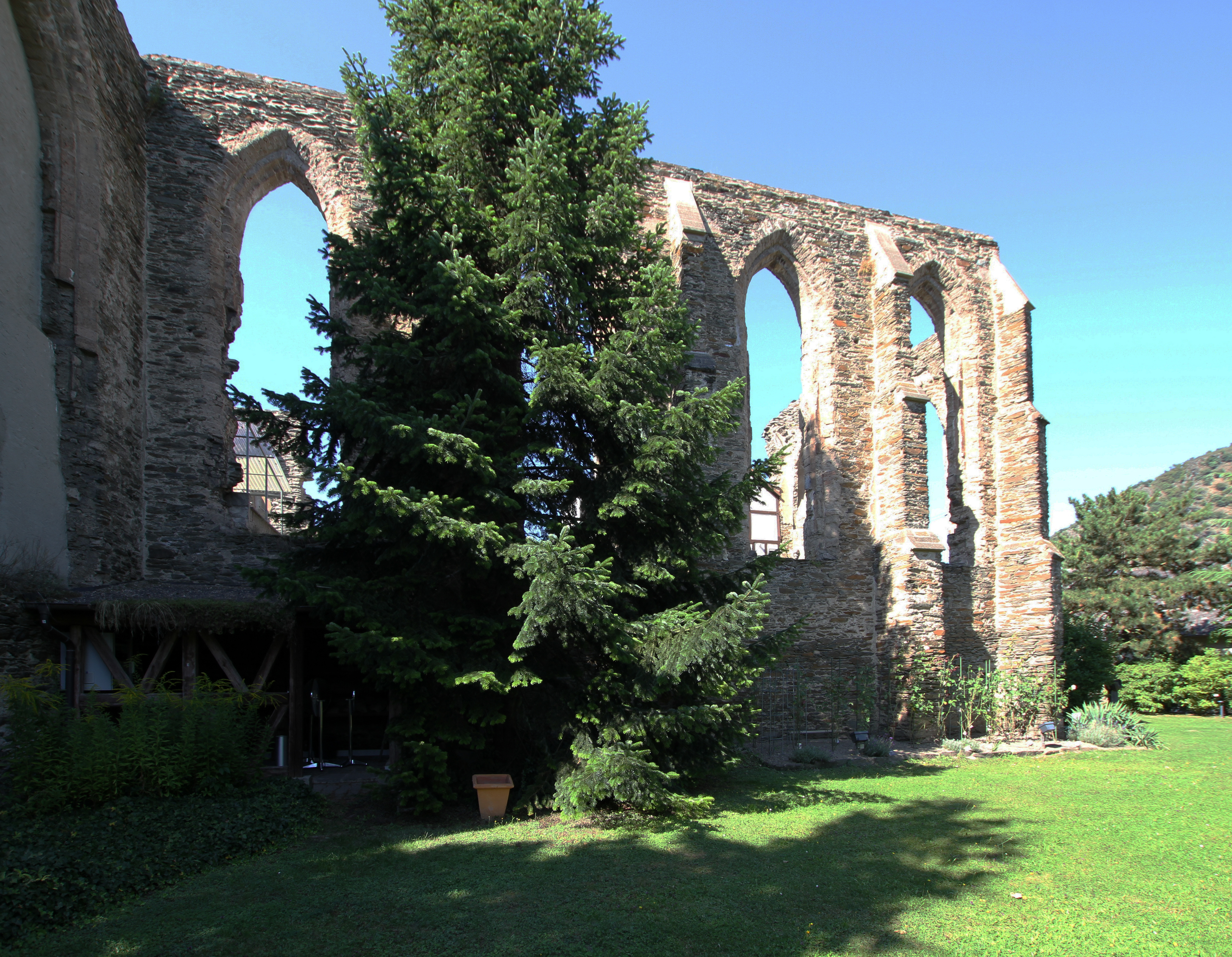 Ruin of the Gothic Minoriten church) in Oberwesel, Rhine Valley/Germany.